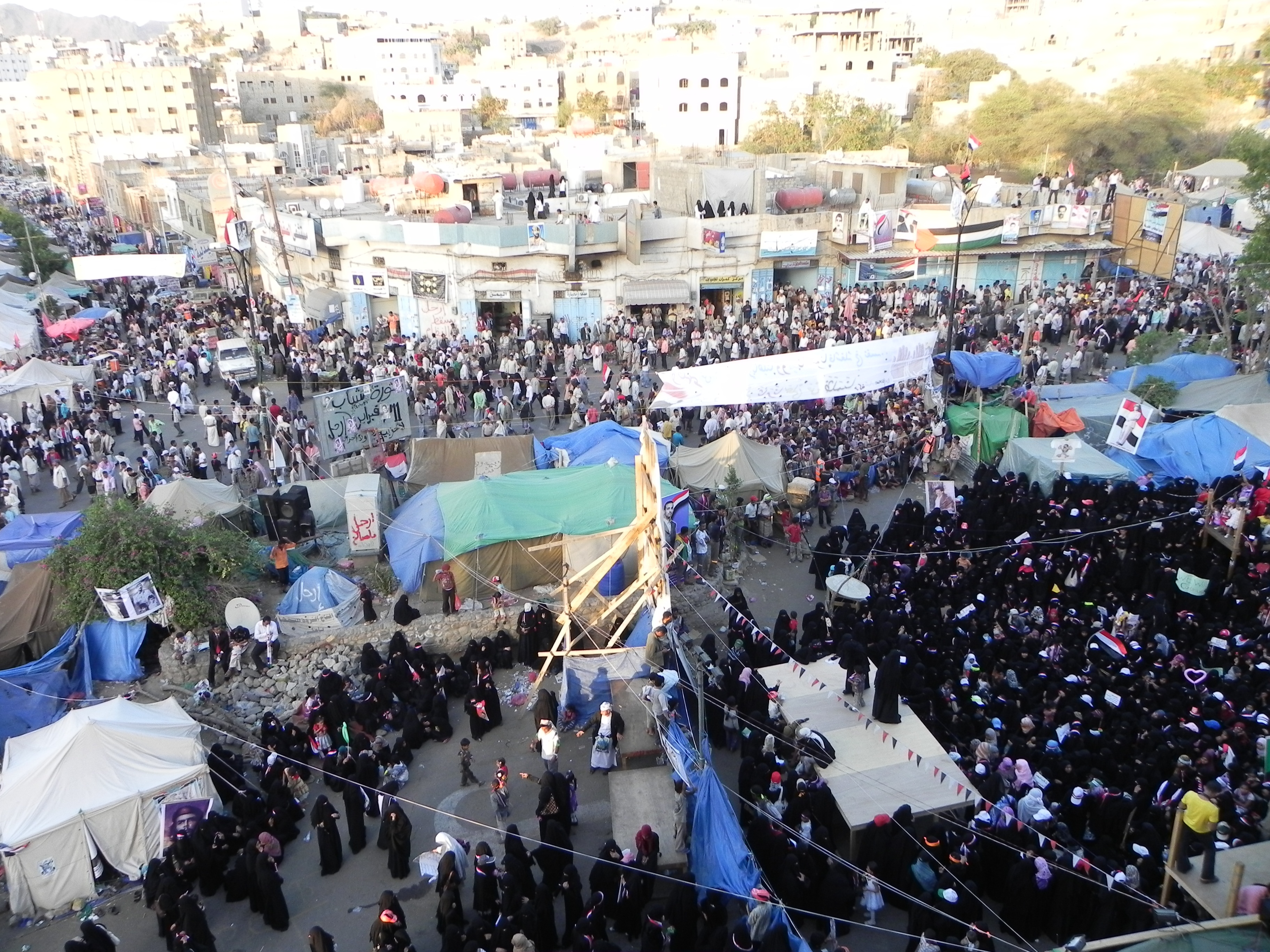 Al-Hurreya Square - The center of Yemeni 2011 protests in Taiz. ميدان الحرية بتعز.